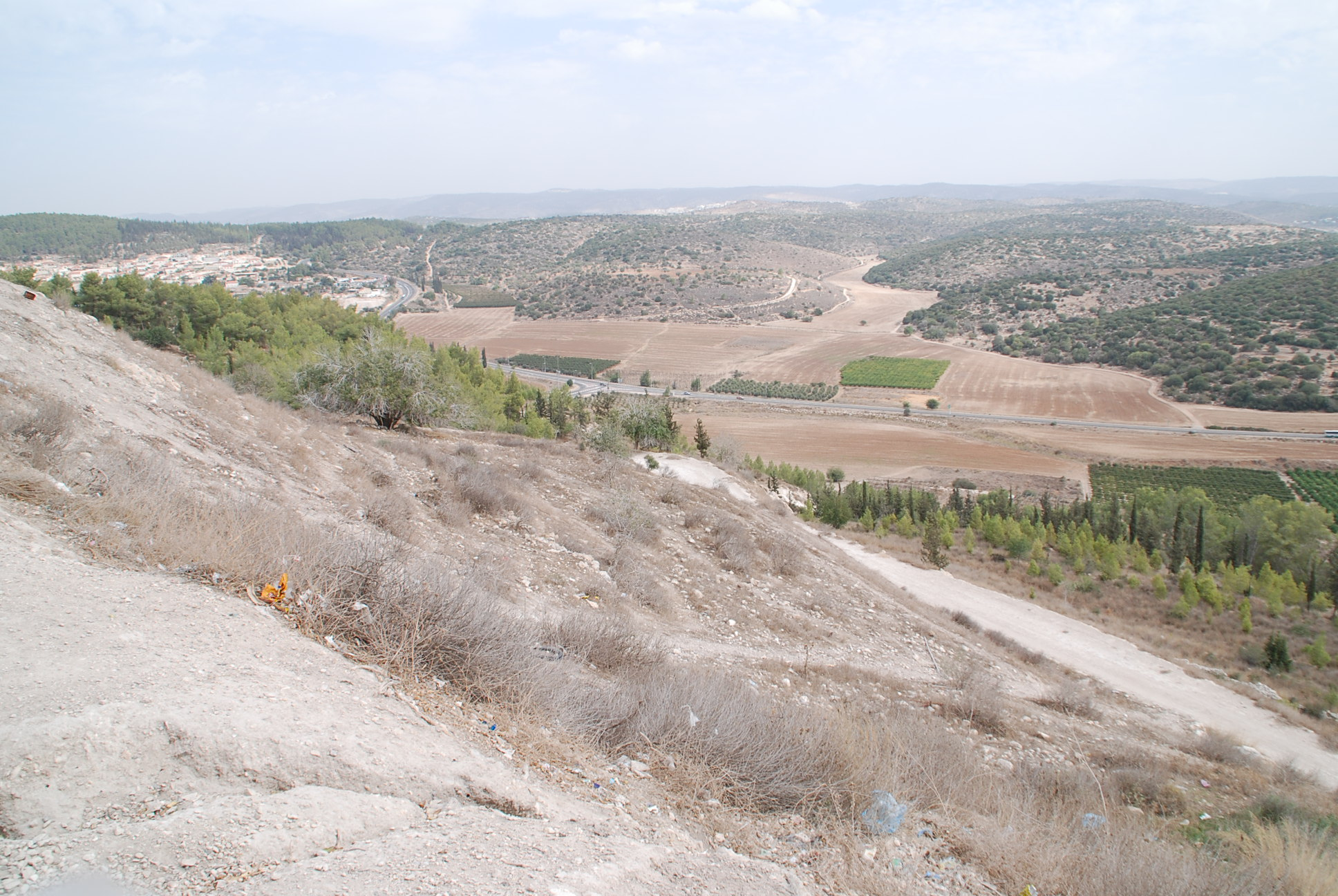 Tel Azeka, Geography of Israel